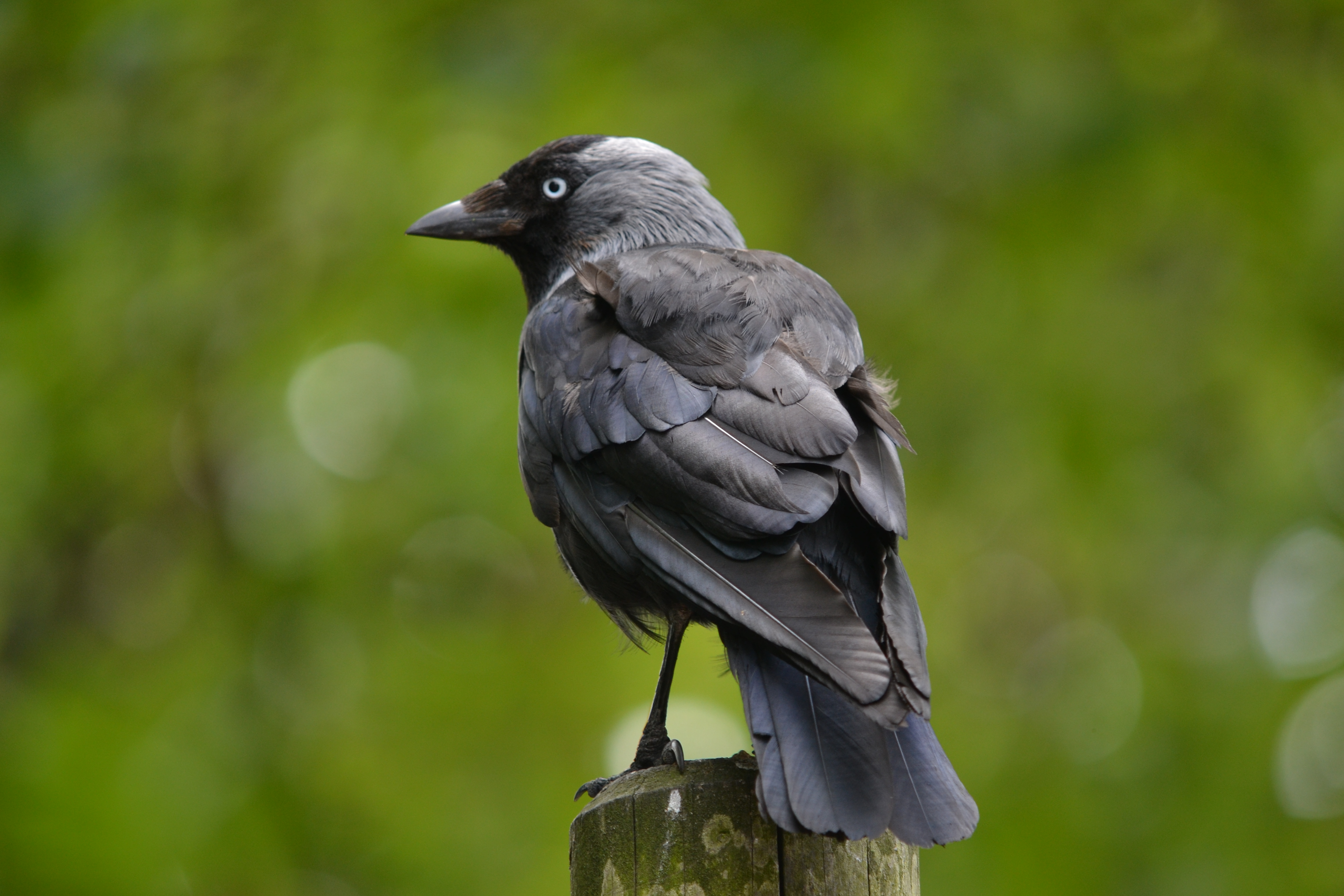 The Western Jackdaw (Corvus monedula), sometimes known as the Eurasian Jackdaw, European Jackdaw or simply Jackdaw, is a passerine bird in the crow family. Found across Europe, western Asia and North Africa, it is mostly resident, although northern and eastern populations migrate south in winter. Four subspecies are recognised, which mainly differ in the colouration of the plumage on the head and nape. Linnaeus first described it formally, giving it the name Corvus monedula. Later analysis of its DNA shows that, with its closest relative the Daurian Jackdaw, it is an early offshoot from the genus Corvus, and possibly distinct enough to warrant reclassification in a separate genus, Coloeus. The common name derives from the word "jack", meaning "small", and "daw", the native English name for the bird. Measuring 34–39 centimetres (13–15 in) in length, the Western Jackdaw is a black-plumaged bird with a grey nape and distinctive pale-grey irises. It is gregarious and vocal, living in small groups with a complex social structure in farmland, open woodland, on coastal cliffs, and in urban settings. An omnivorous and opportunistic feeder, it eats a wide variety of plant material and invertebrates, as well as food waste from urban areas. Western Jackdaws are monogamous and build simple nests of sticks in cavities in trees, cliffs, or buildings. About five pale blue or blue-green eggs with brown speckles are laid and incubated by the female. The young then fledge in four to five weeks.